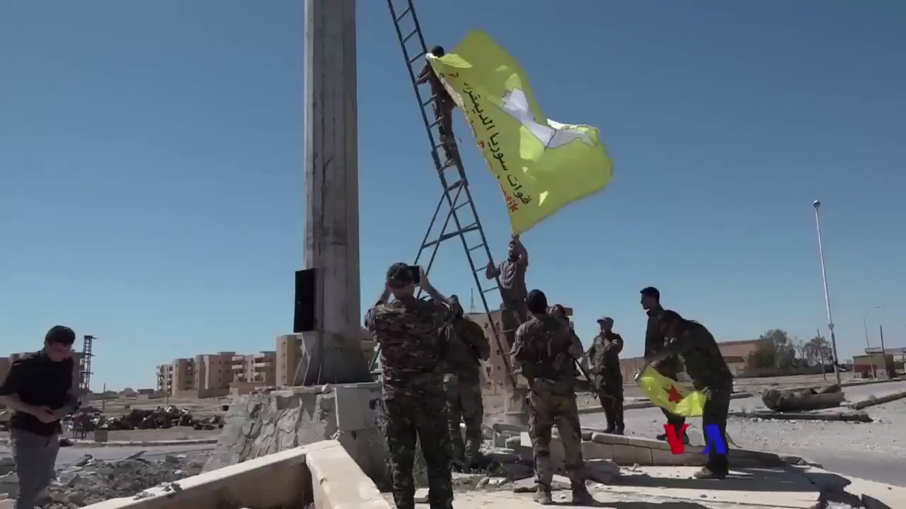 Fighters of the Syrian Democratic Forces raise their flag in Tabqa.